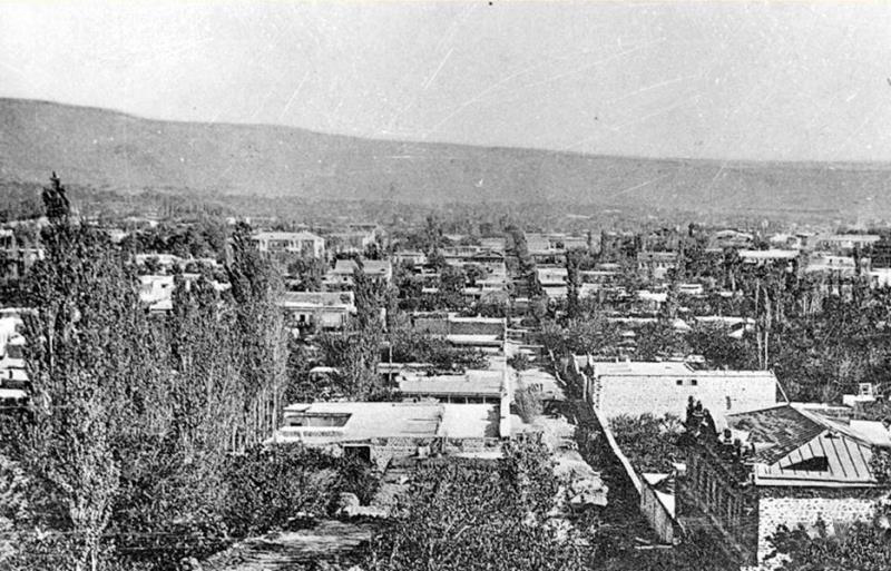 Bebutovskaya street, Yerevan